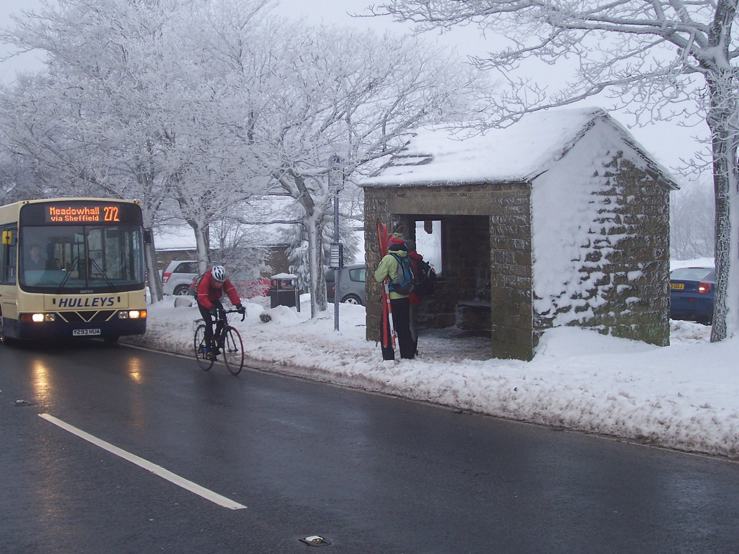 Bus stop at Fox House, South Yorkshire, in snow, as a Hulleys of Baslow bus arrives on route 272 to Shefield. The bus is a DAF SB120 with a Wright Cadet body, fleet number 7, registration mark Y293 HUA.